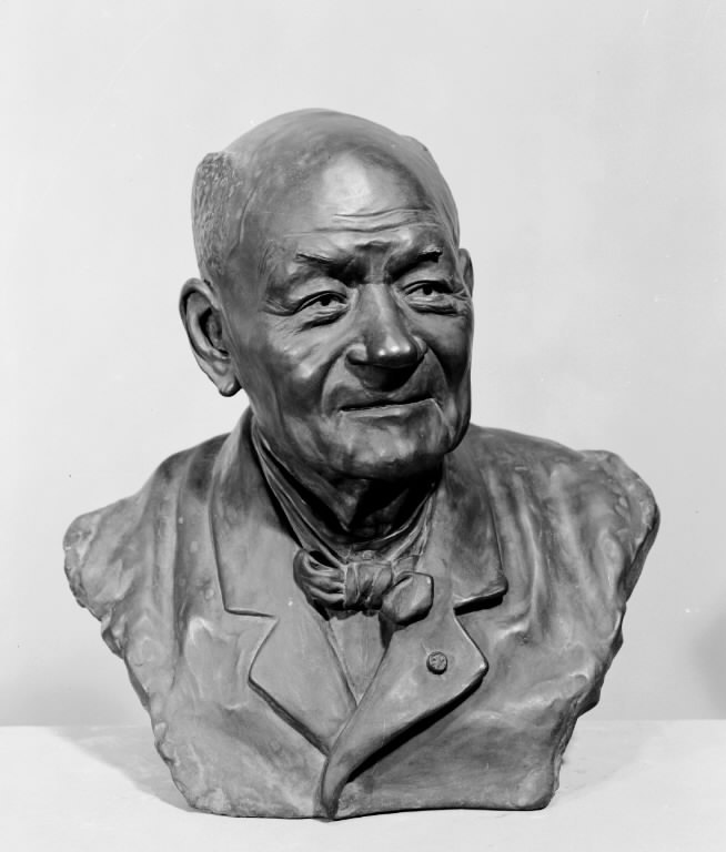 Vilhelm Herold (1865-1937), Skuespilleren Otto Zinck, 1905